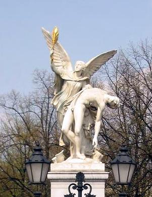 Palace Bridge in Berlin, Nike takes the fallen hero to Olympus by August Wredow, 1857.